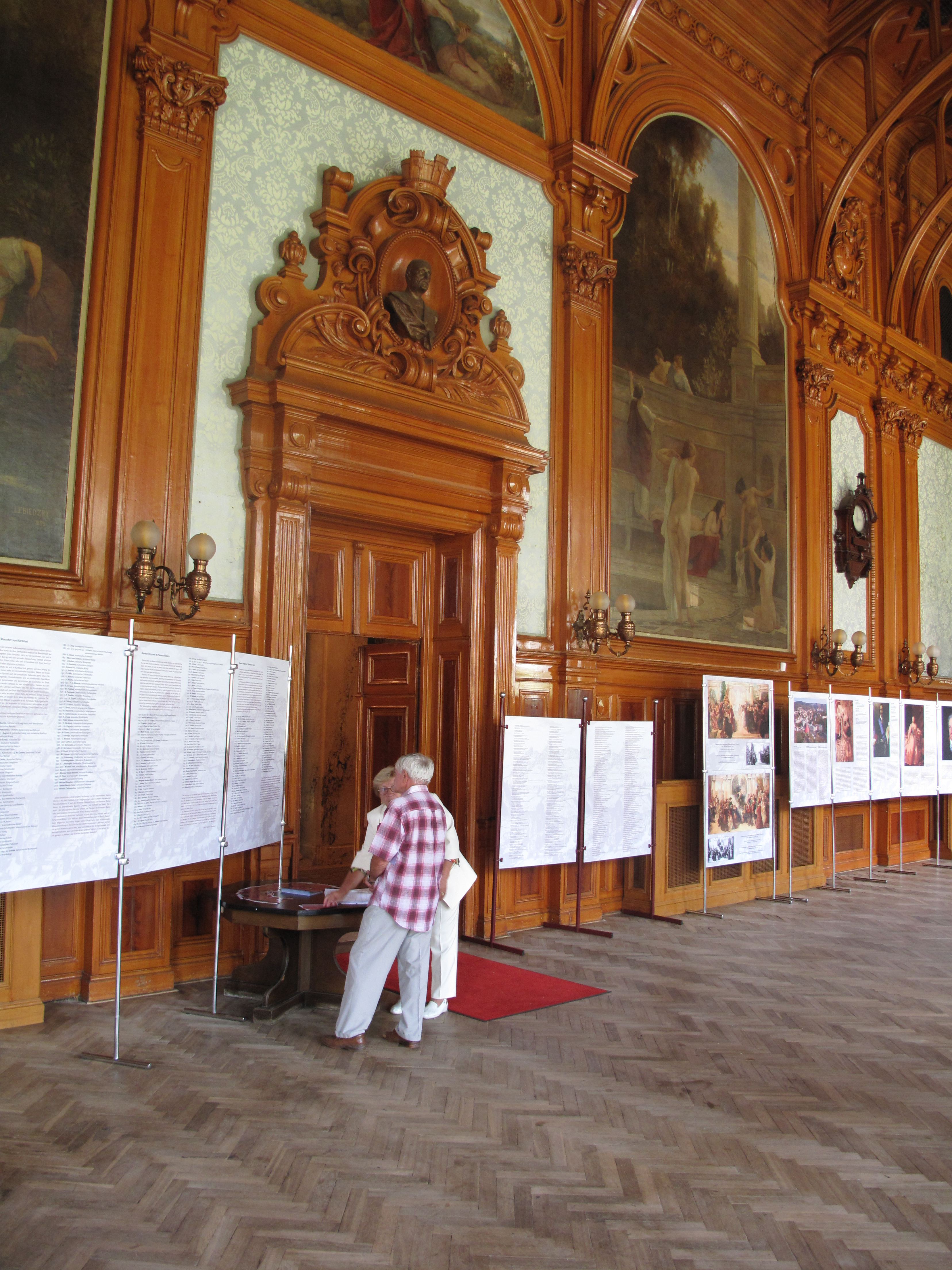 Imperial Spa - interier, Charlsbad, Czech Republic. Personality rights warningAlthough this work is freely licensed or in the public domain, the person(s) shown may have rights that legally restrict certain re-uses unless those depicted consent to such uses. In these cases, a model release or other evidence of consent could protect you from infringement claims.